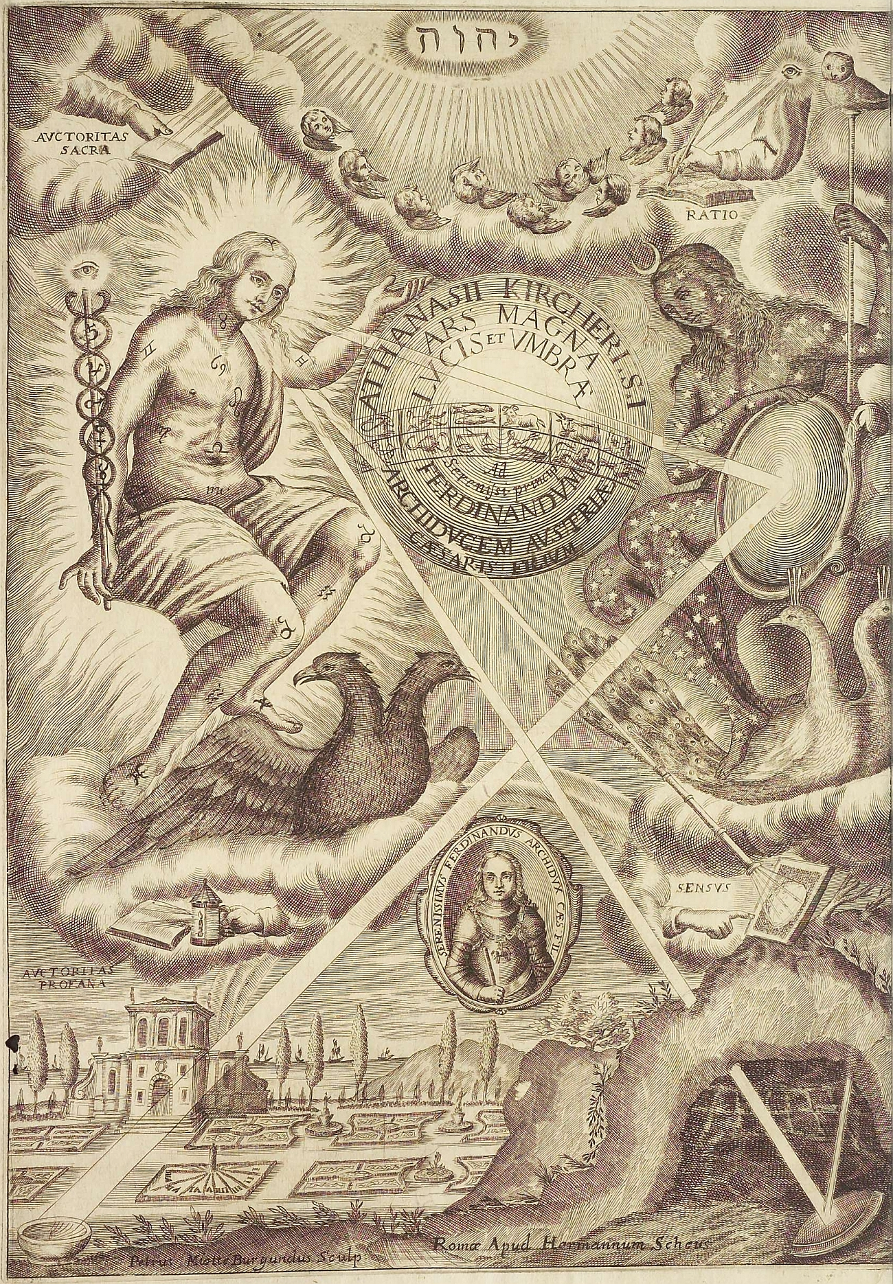 frontispiece of Athanasius Kircher's book Ars magna lucis et umbrae in decem libros digesta. Quibus admirandae lucis et umbrae in mundo, atque adeo universa natura.. (Rome, Scheus, 1646).